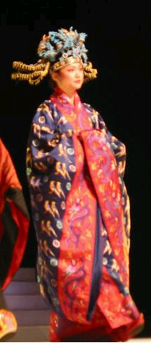 Formal attire of empress of China Ming Dynasty